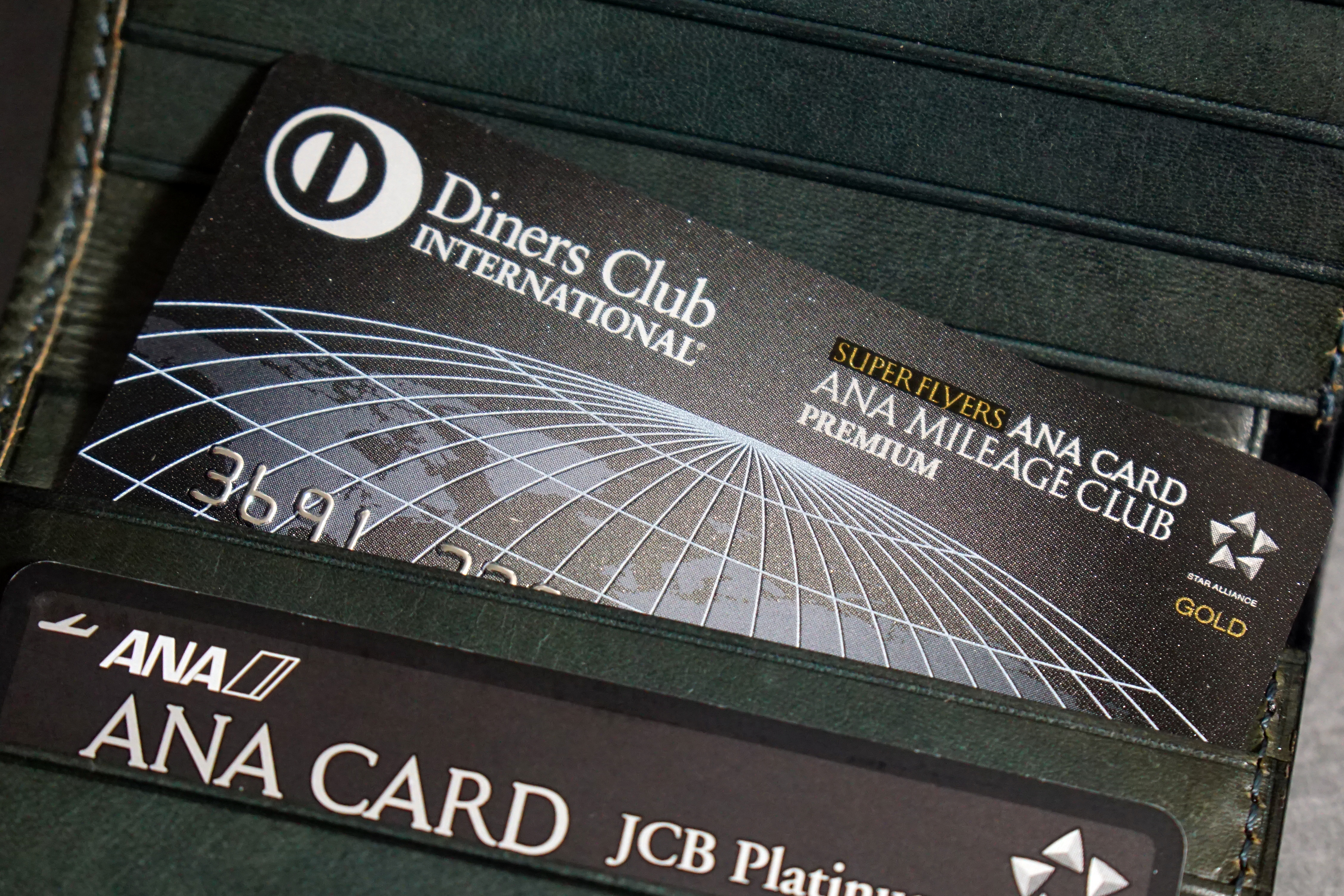 ANA Diners Super Flyers Premium Card